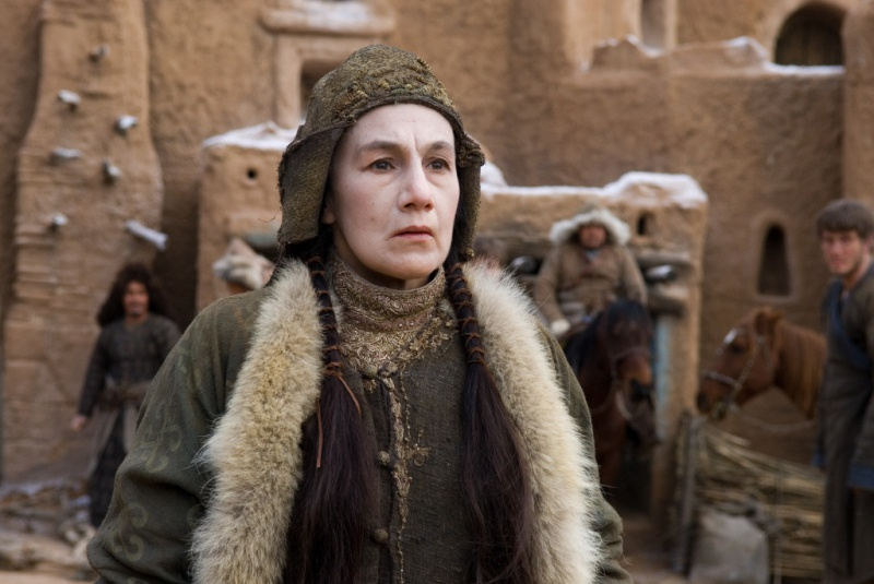 Hairullina Roza at the filming of "The Horde"